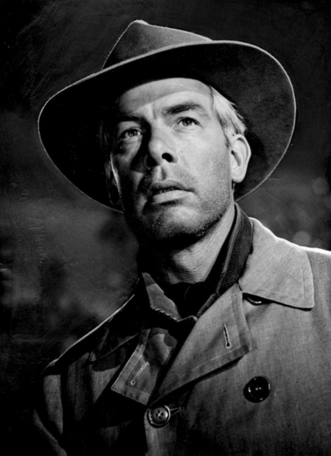 Photo of Lee Marvin from the television program The Twilight Zone. The episode is "The Grave".